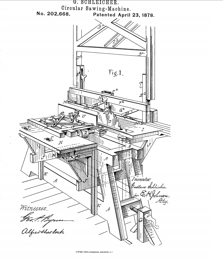 Image from US202668A "Improvement in circular sawing machines"